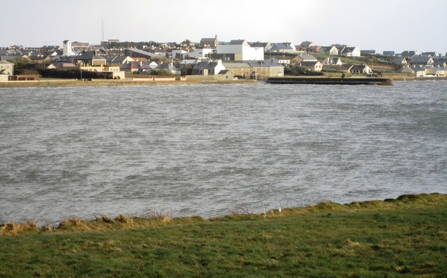 Belmullet Foreshore, Co. Mayo Looking southeast across the narrow bay towards the foreshore and pier at Belmullet.